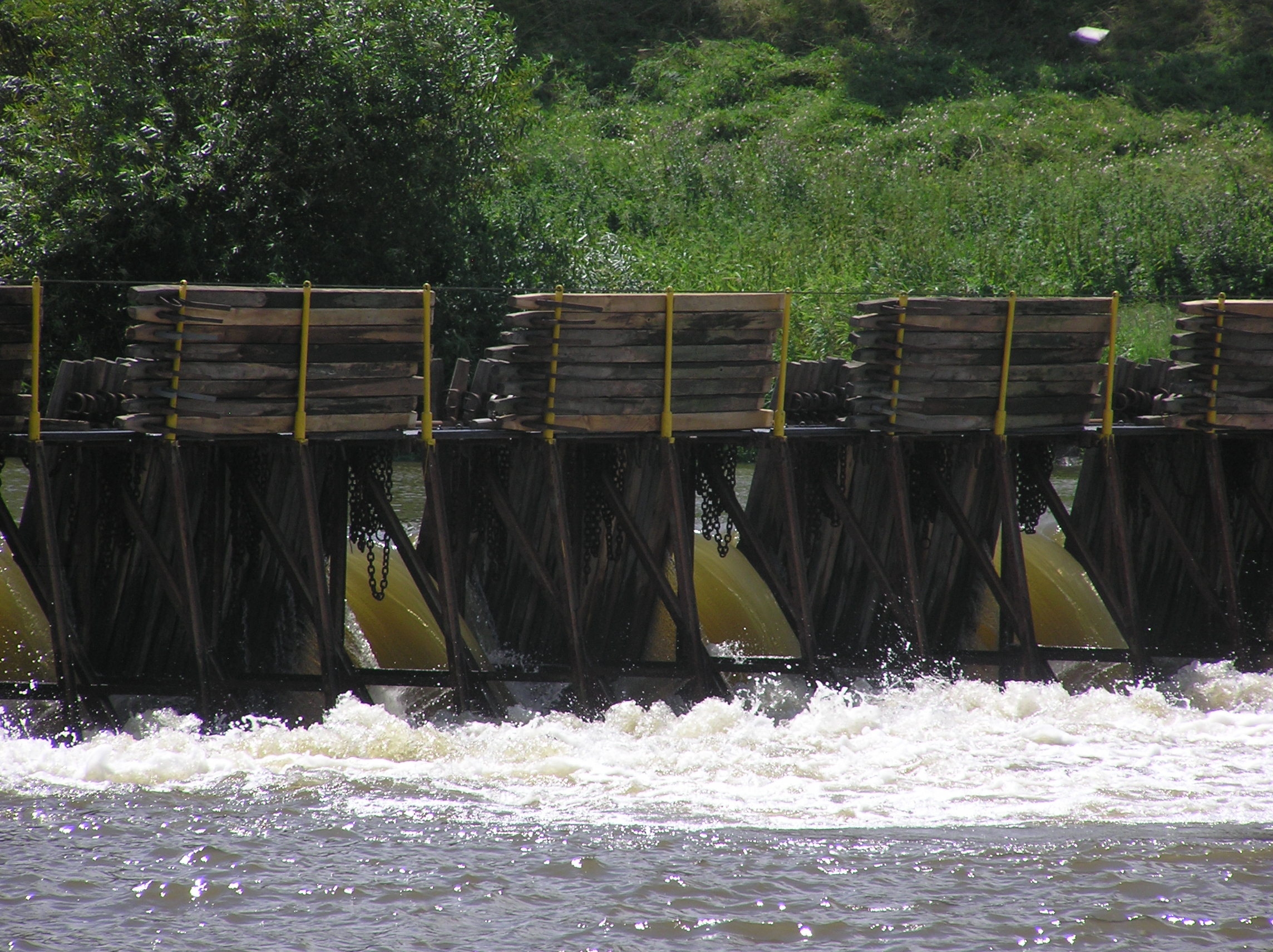 Wrocław, Psie Pole Weir